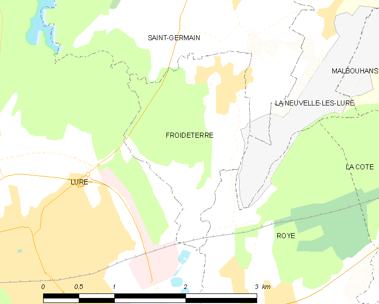 Map of French municipality